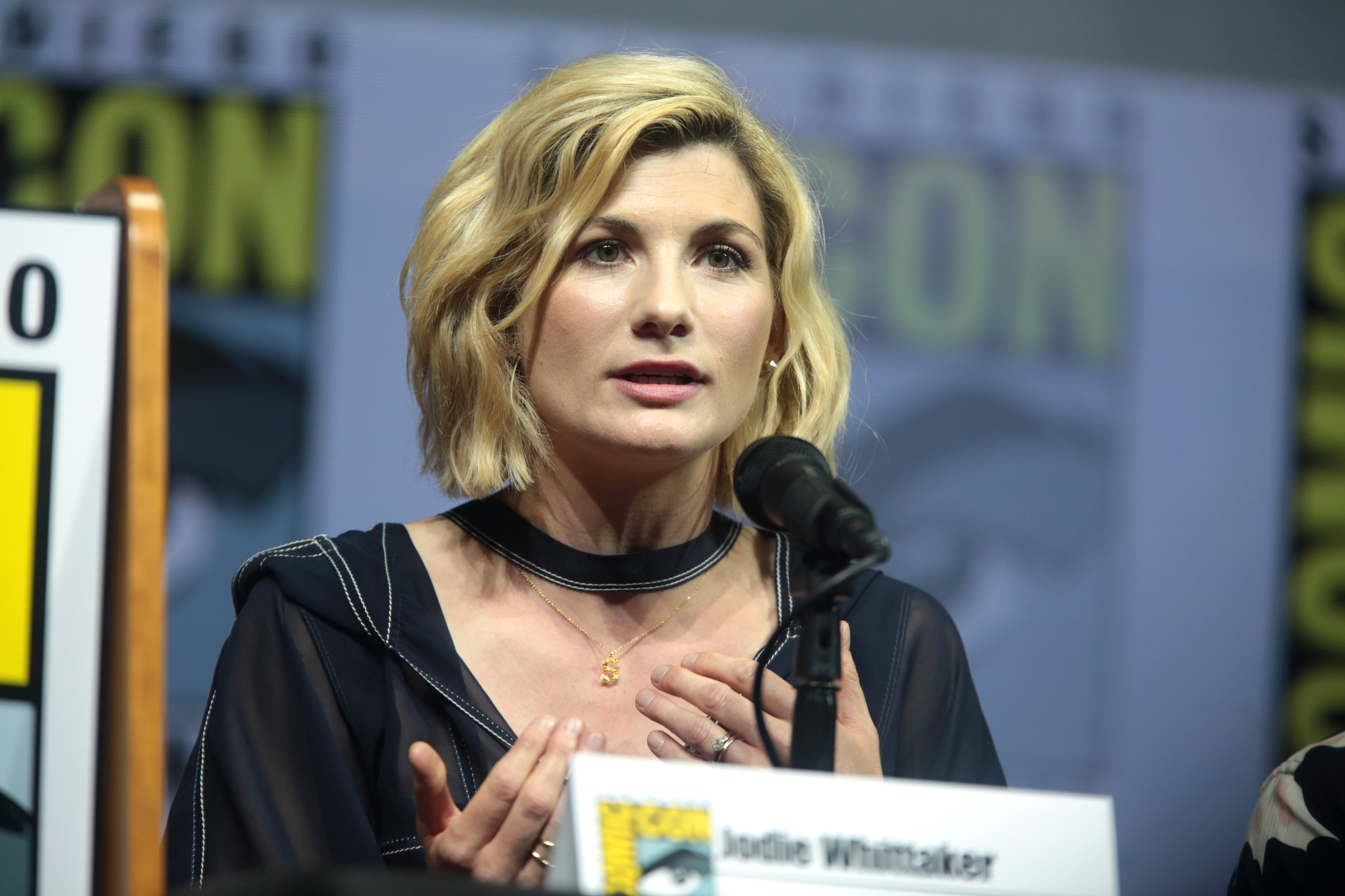 Jodie Whittaker speaking at the 2018 San Diego Comic Con International, for "Doctor Who", at the San Diego Convention Center in San Diego, California.